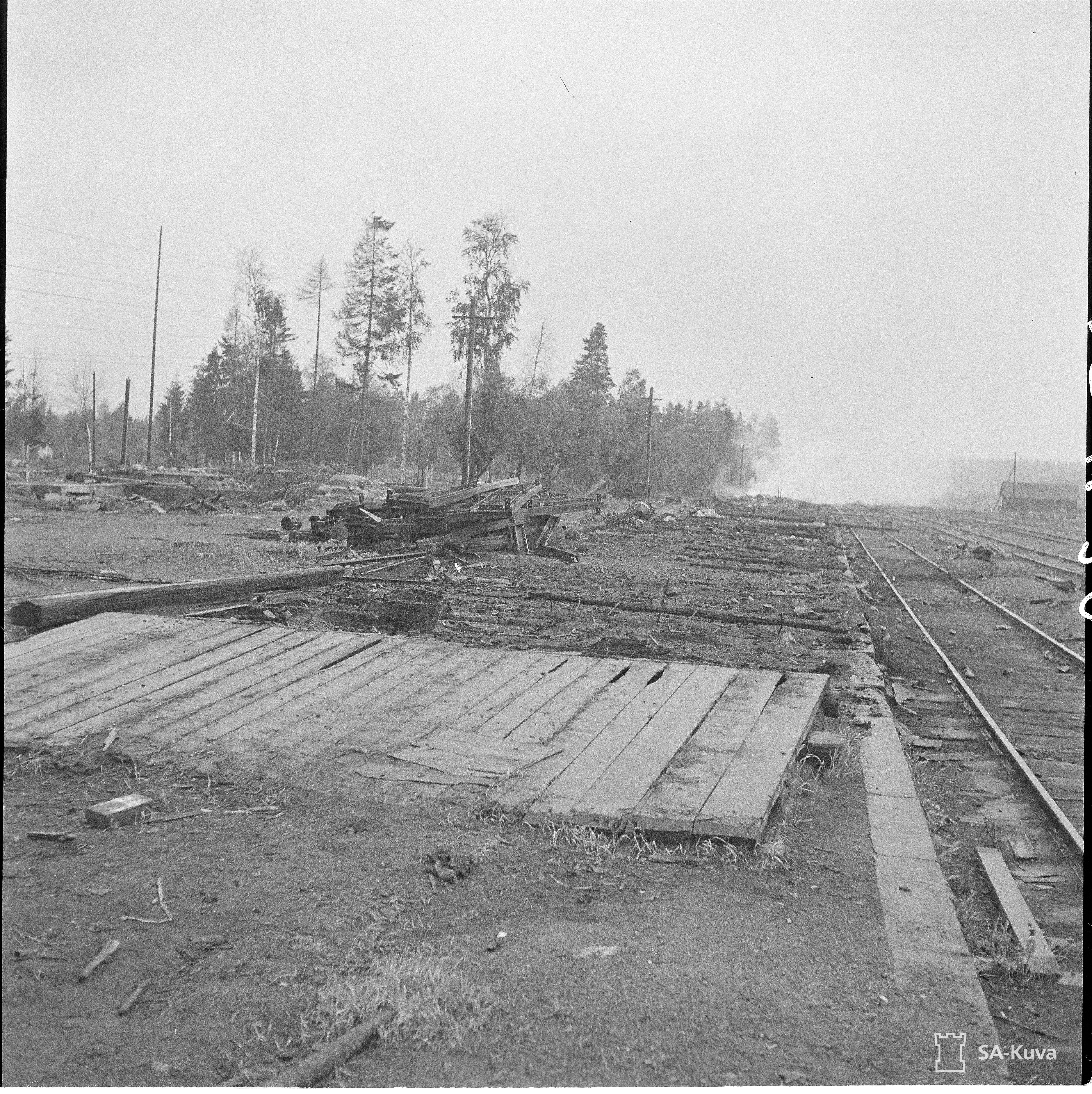 Suojrven aseman palaneet rauniot.